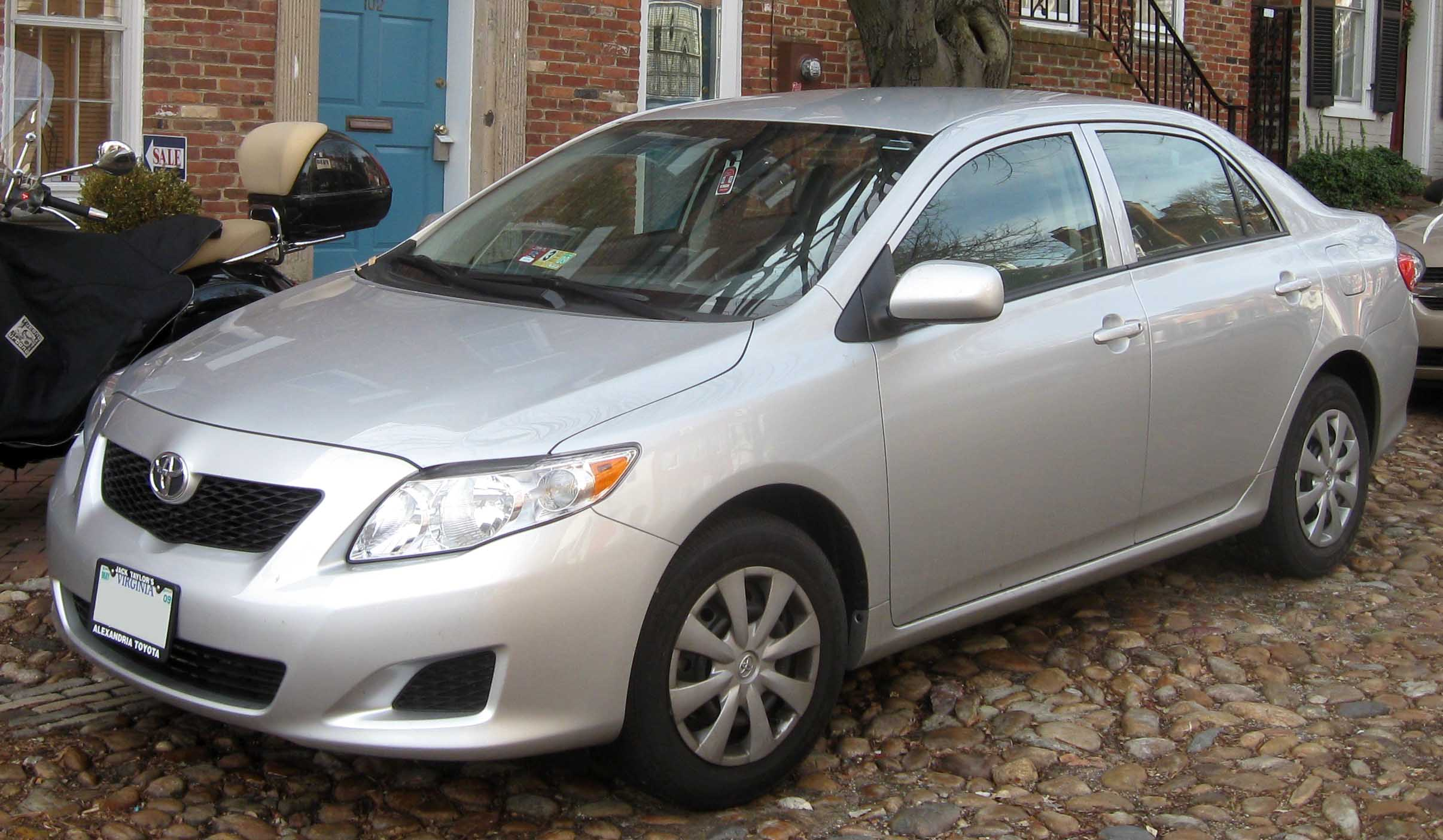 2009 Toyota Corolla photographed in Alexandria, Virginia, USA.